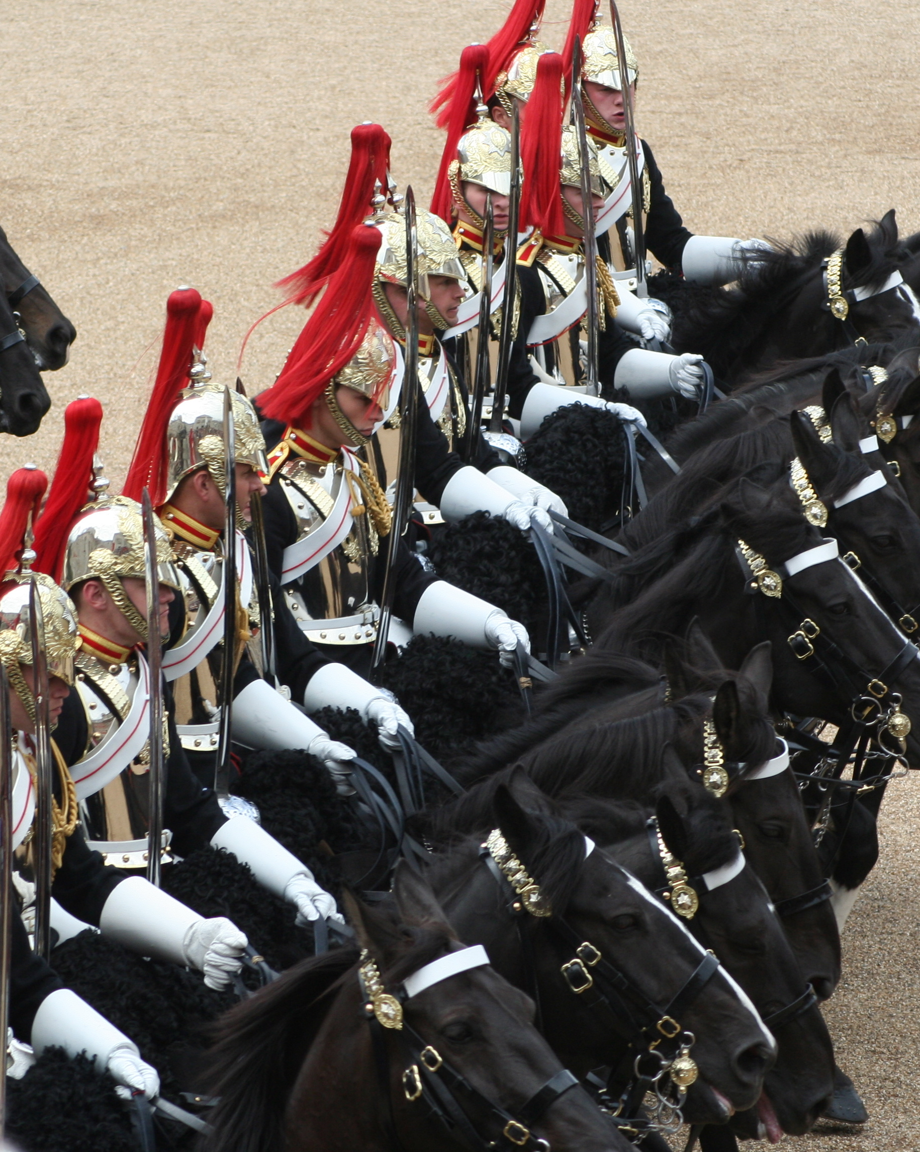 Queen's Official Birthday parade, London. Cavalry is Blues and Royals regiment.Trooping the Colour, 16th June 2007